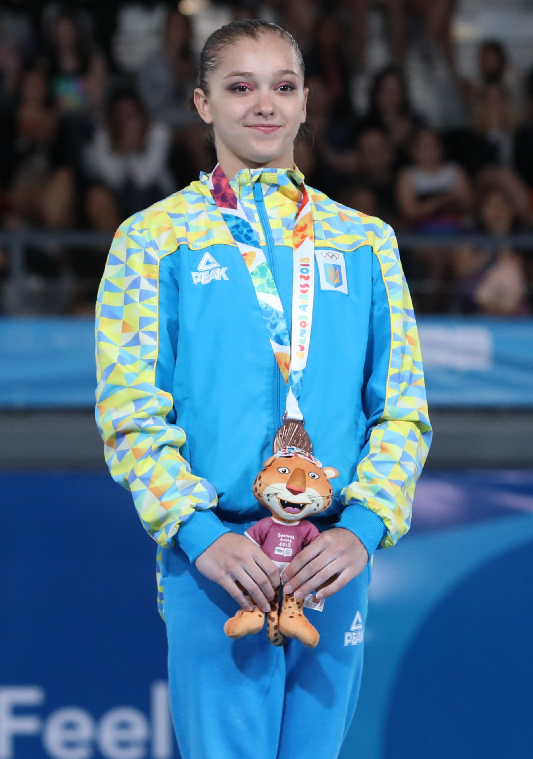 Girls' Artistic gymnastics, Floor: Victory ceremony